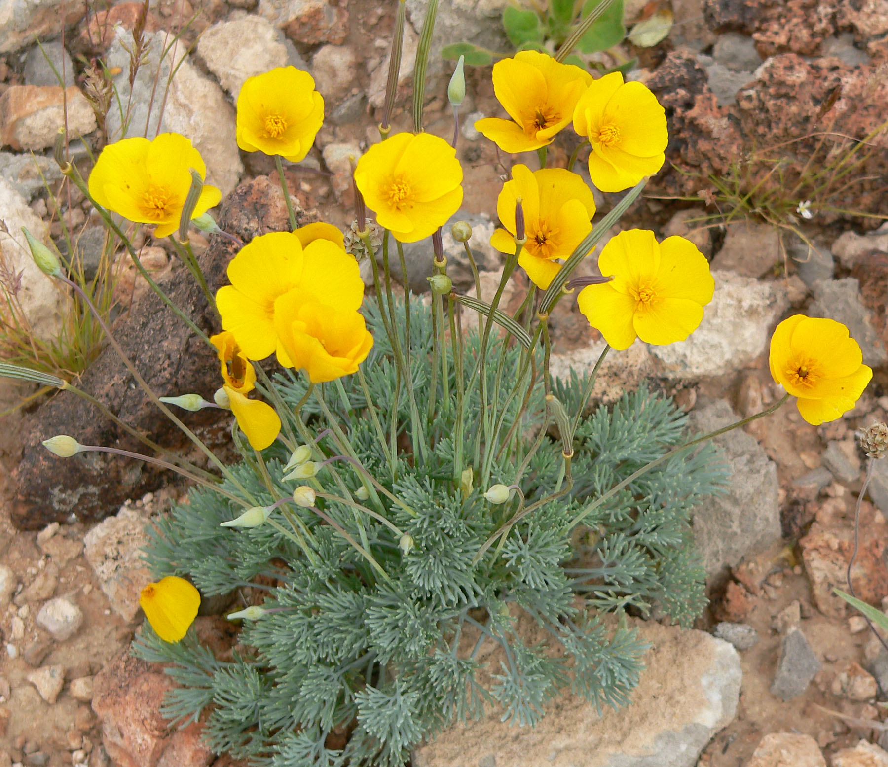 Photo of Eschscholzia glyptosperma in the desert west of Las Vegas, Nevada (just off the end of Tropicana Avenue)